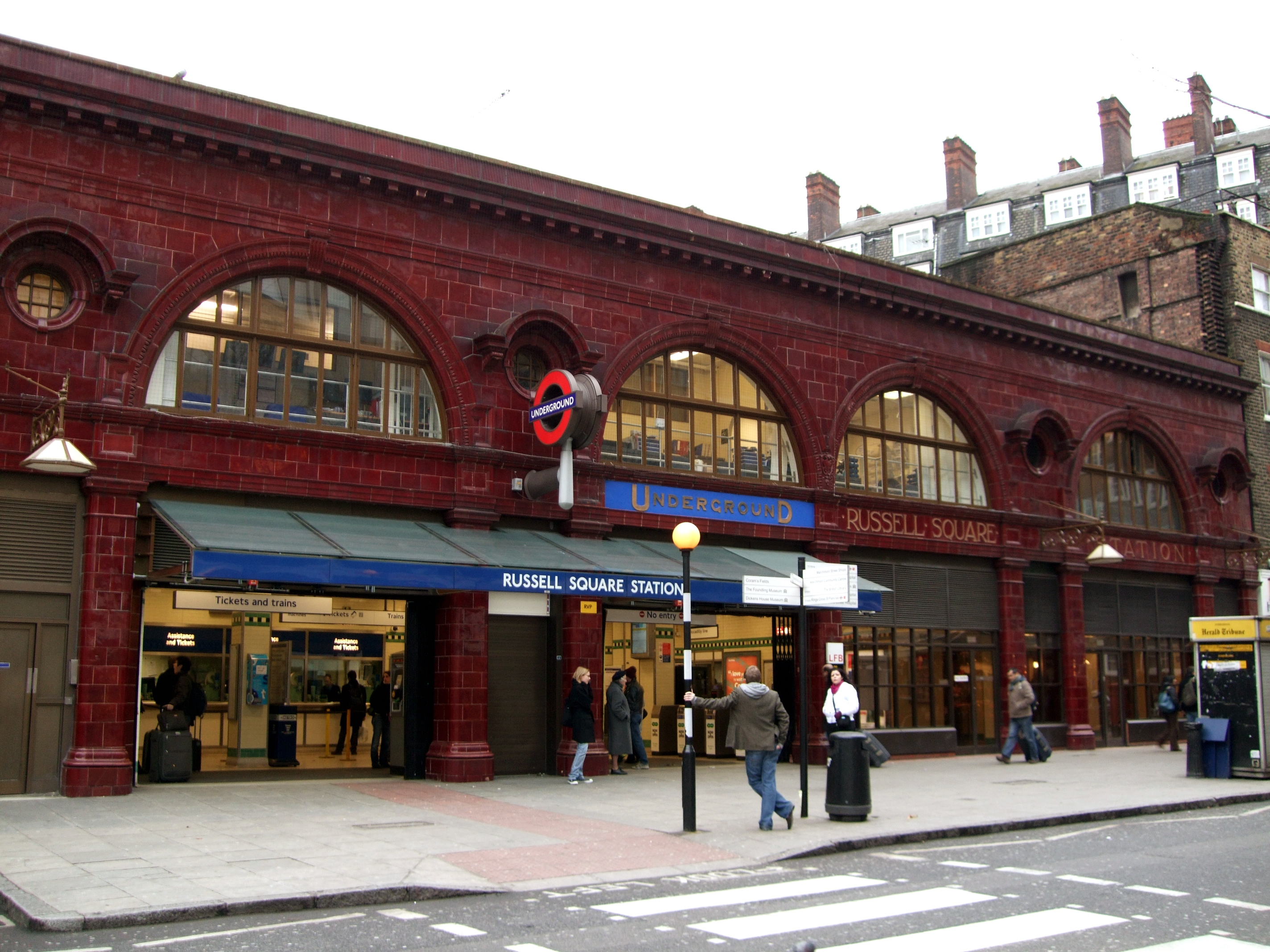 The glorious red-tiled frontage of Russell Square station on the Piccadilly line